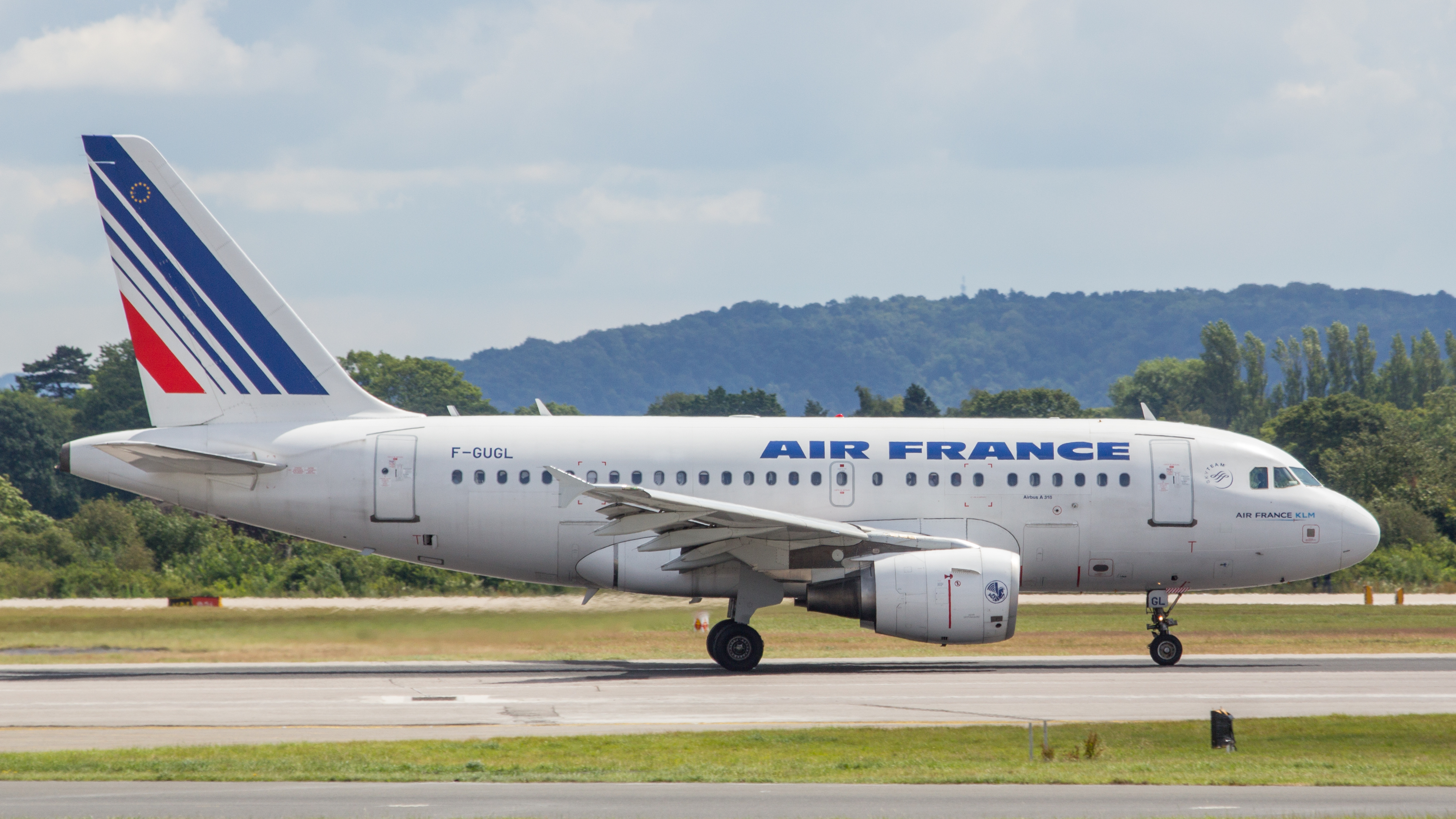 F-GUGL Air France A318